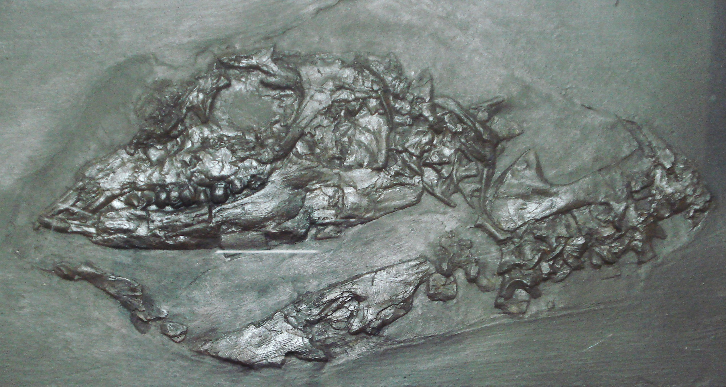 Skull, anterior portion of the vertebral column, and elements of the pectoral girdle of Paraplacodus broili (specimen no. BSP 1953 XV 5) from the Middle Triassic Grenzbitumenzone of Monte San Giorgio (Ticino, Switzerland) in left-lateral view, on display in the Paläontologisches Museum München. The length of the skull is about 12 cm.[1]